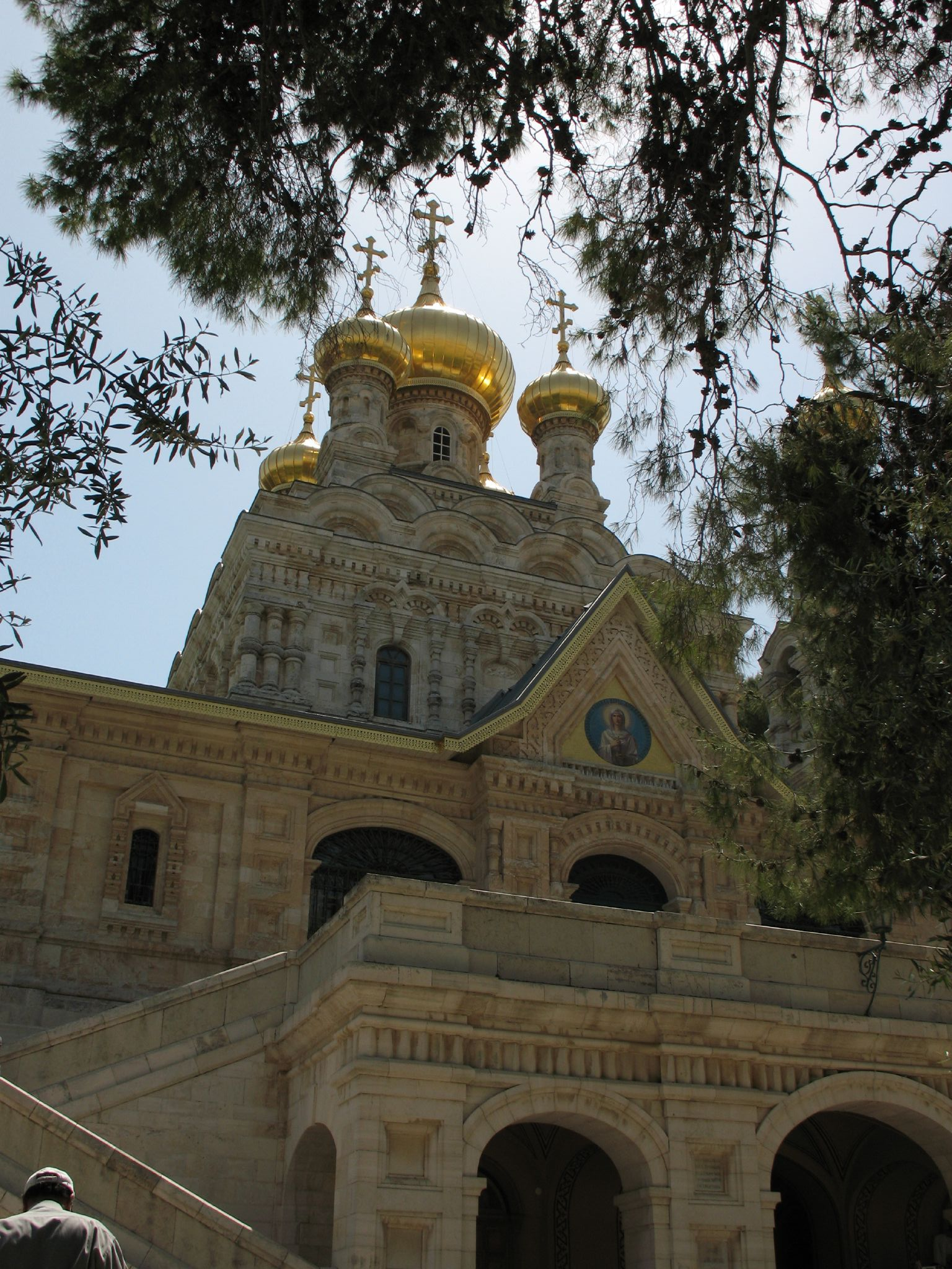 St Mary Magdalene Church in Jerusalem